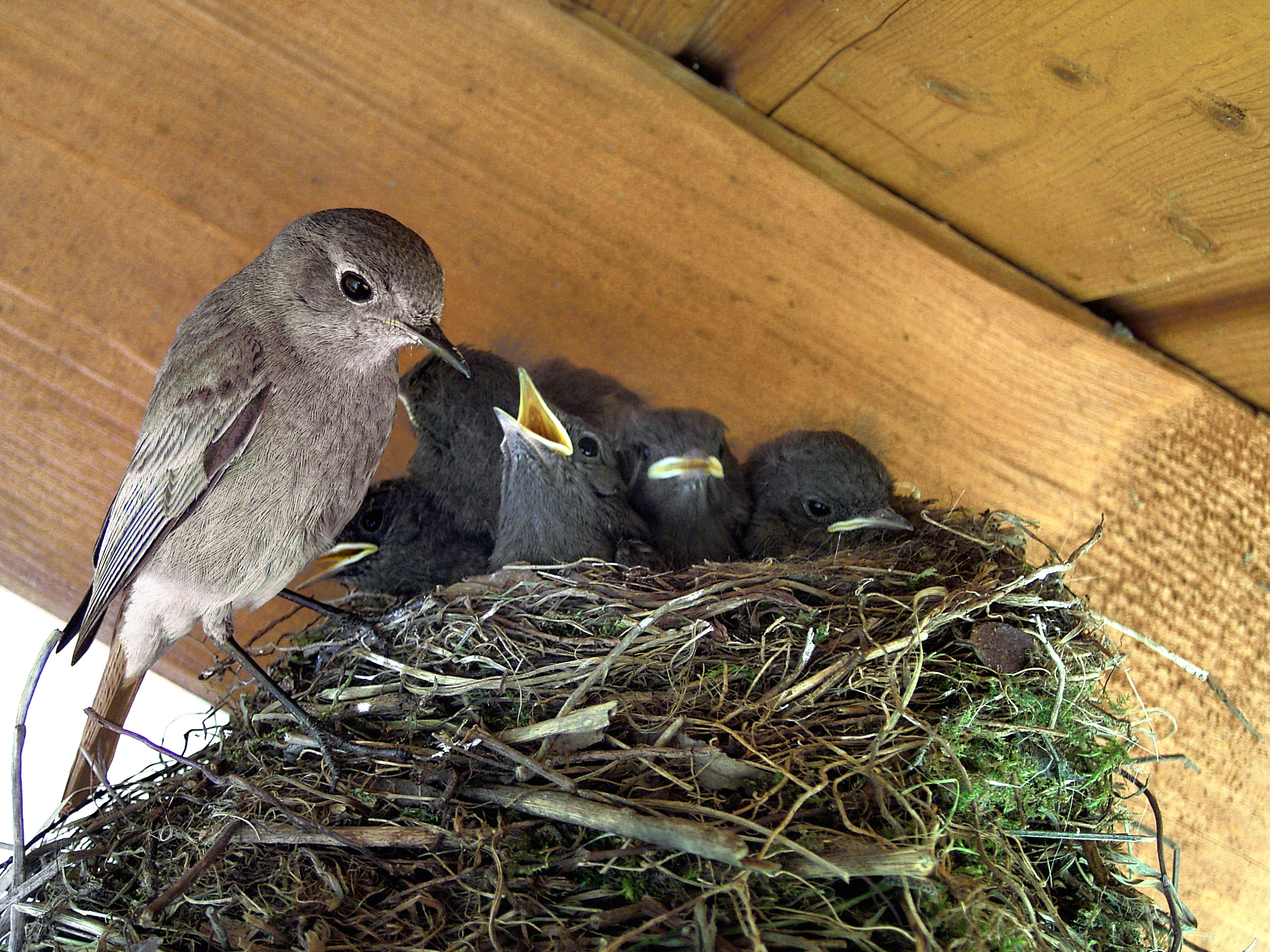 Female Phoenicurus ochruros tending to her young.See also overall description below